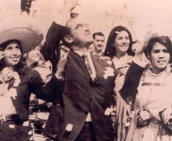 Familia Valle